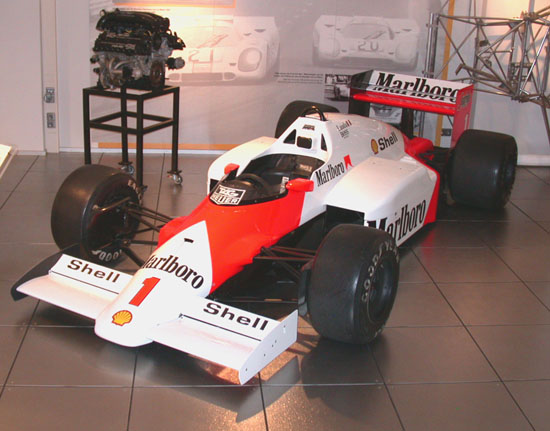 McLaren MP4/2, "McLaren-TAG Porsche" Formel 1 Rennwagen 1984-86 at the Porsche Museum in Stuttgart.